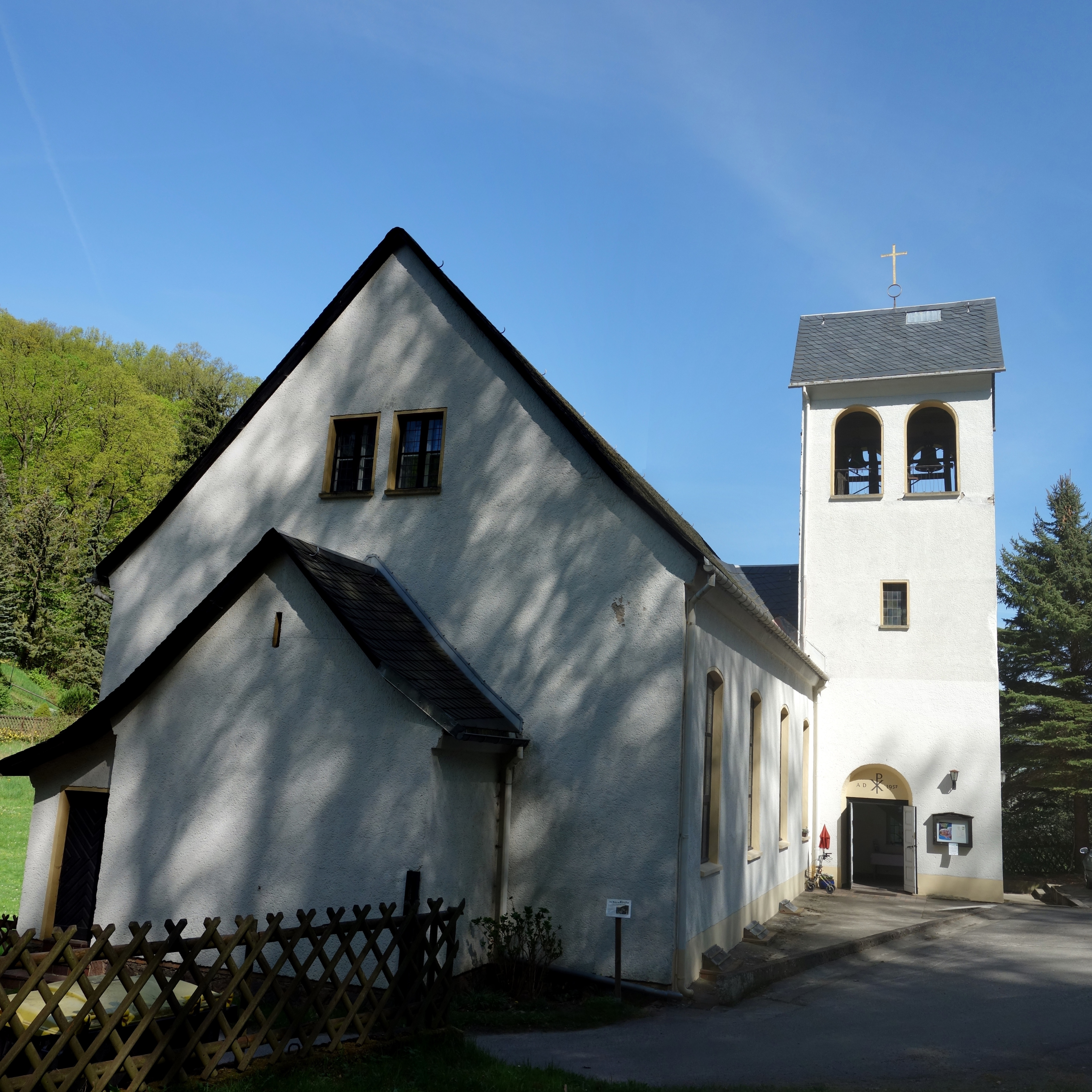 Southern view of the church in Malche , Bad Freienwalde municipality, Märkisch-Oderland district, Brandenburg state, Germany